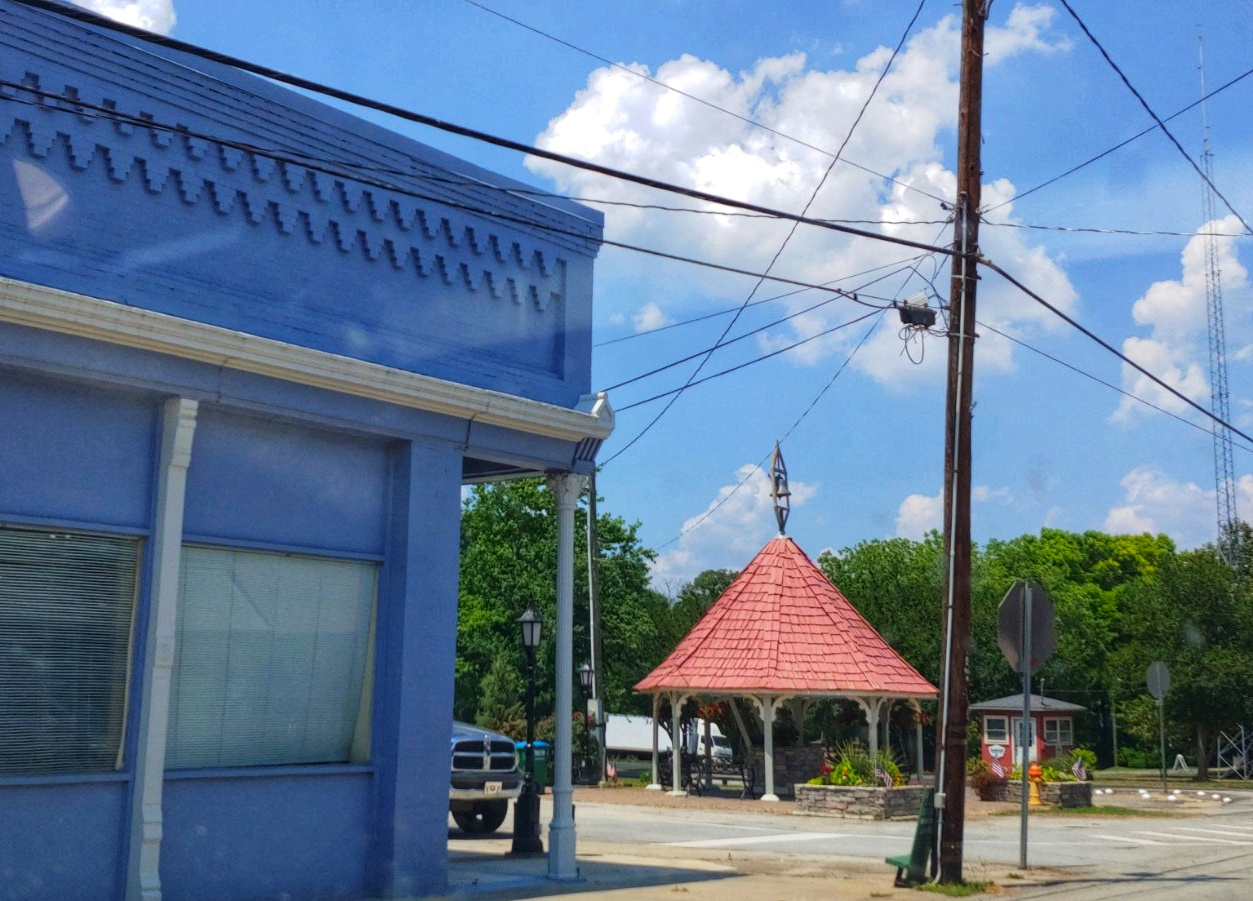 Picture of downtown Bowman GA